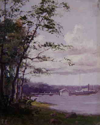 Oilpainting by Ellen Favorin (Finland) died in 1919.